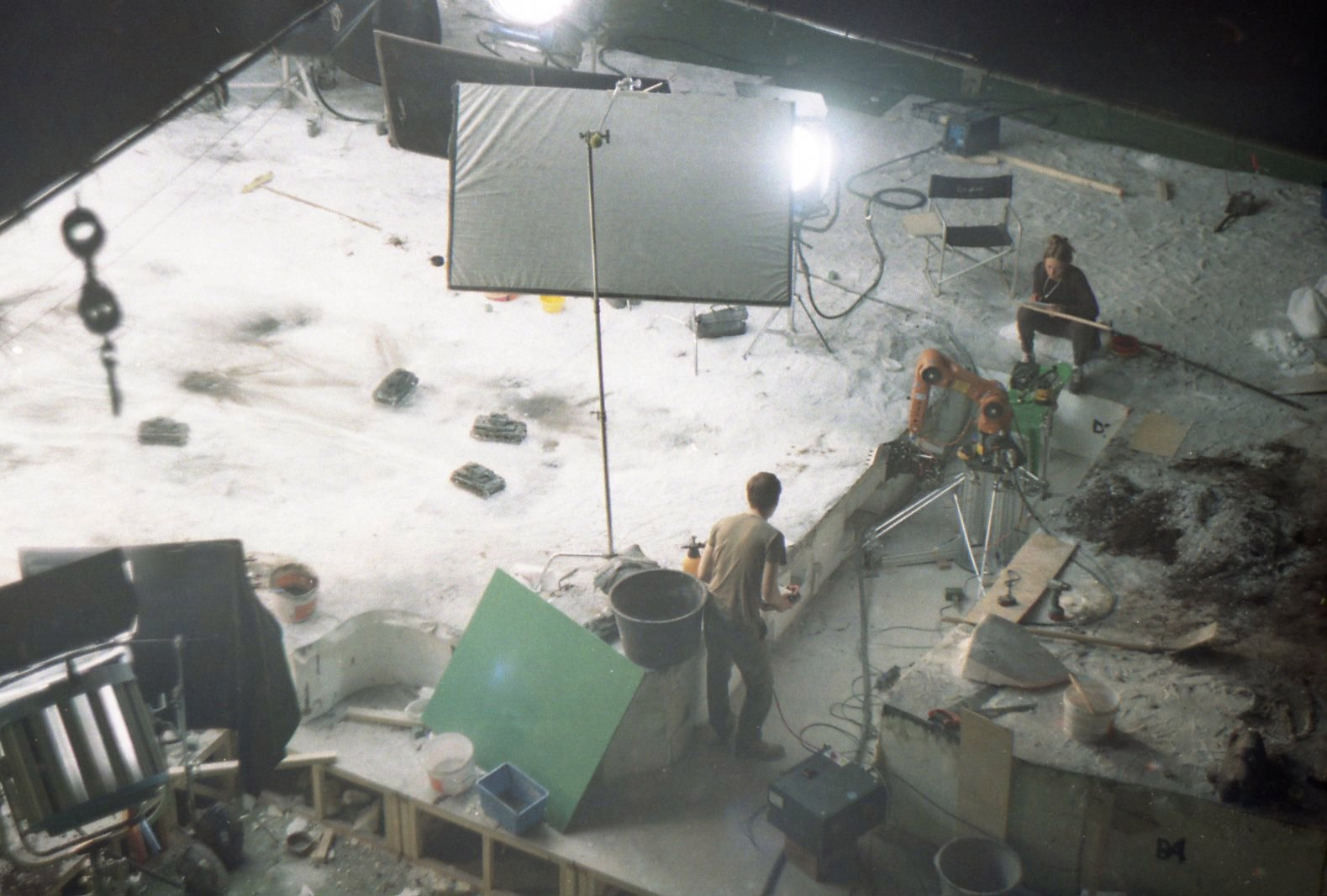 Pavillion that has been used in Lenfilm for the film Panfilov's 28 men